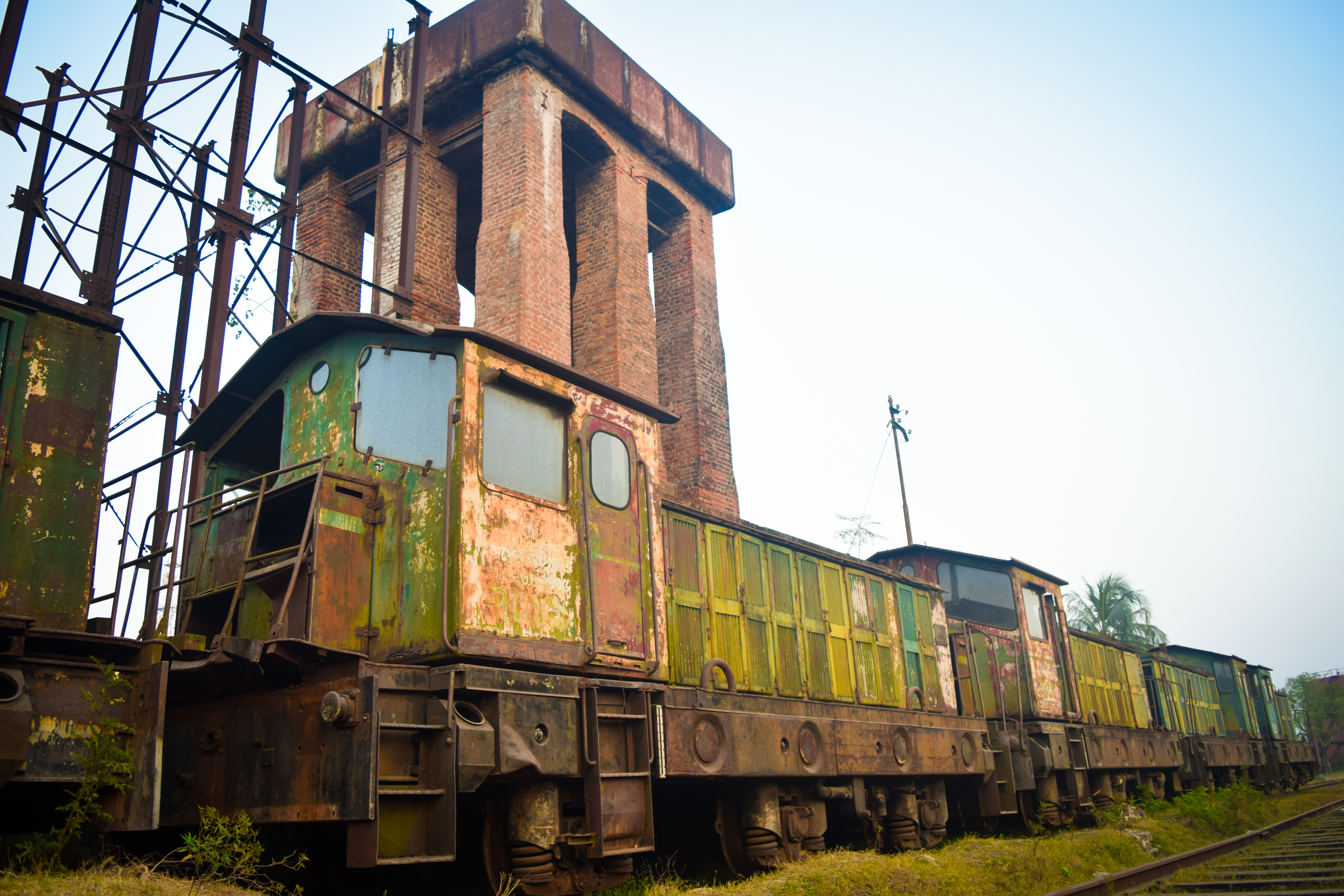 Antique rail engine in khulna rail station